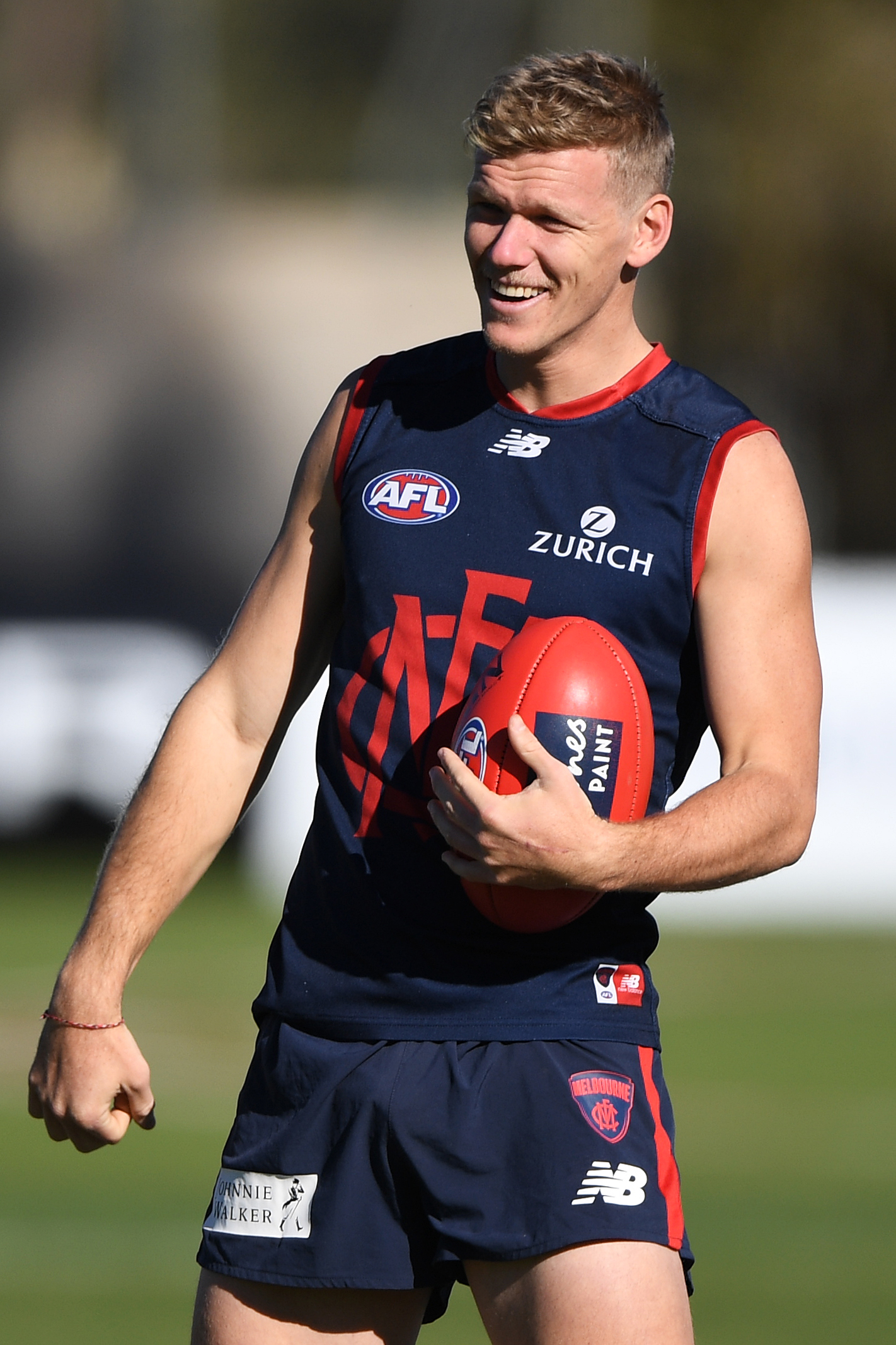 Josh Wagner of Melbourne during Melbourne training at Traeger Park on Saturday, 20 July 2019 in Alice Springs, Northern Territory.